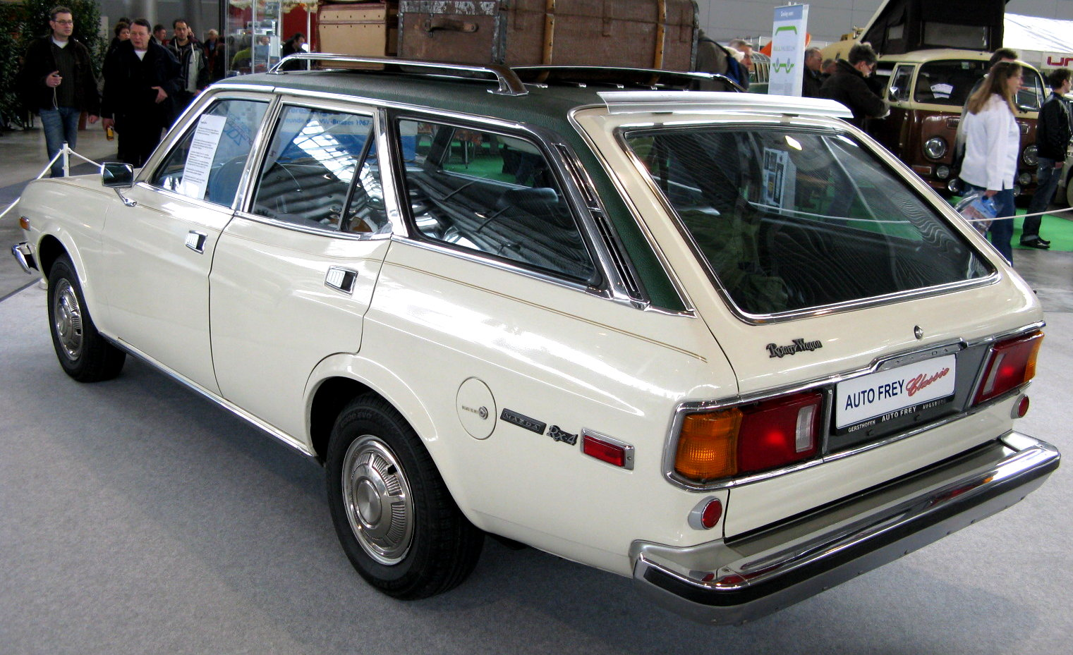 1977 Mazda RX-4